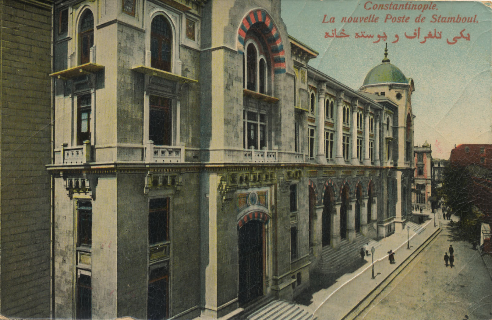 Construction of the Grand Post Office in Sirkeci began in 1905, and it opened in 1909 as the Post and Telegraph Ministry. The building was designed by Vedad Tek, a major architect of First Nationalist Architecture, who adapted forms of classical Ottoman architecture to the international rules of Beaux-Arts. Named the New Post Office in the 1930s the building hosted the İstanbul Radio between 1927-1936. It was only in 1958 that it started to be used solely for post and telegraph services. Now known as Grand Post Office the building remains the largest post office in Turkey and accommodates the PTT İstanbul Regional Head Directorate. SALT Research, Photograph Archive Yapımına 1905’te başlanan Sirkeci’deki Büyük Postane binası, 1909’da Posta ve Telgraf Nezareti olarak açıldı. Bina, klasik Osmanlı biçimlerinin Beaux-Arts mimari kurallarına uyarlanması temelinde, Birinci Ulusal Akımı’nın önde gelen mimarlarından Vedad Tek tarafından tasarlandı. 1930’larda Yeni Postane olarak anılan bina, 1927-1936 yıllarında İstanbul Radyoevi’ne ev sahipliği yaptı. 1958’den sonra ise sadece posta ve telgraf hizmetlerinde kullanılmaya başlandı. Türkiye’nin en büyük postanesi olan bina, günümüzde Sirkeci Postanesi, Telgraf Başmüdürlüğü ve İstanbul Avrupa Yakası PTT Başmüdürlüğü olarak hizmet vermektedir. SALT Araştırma, Fotoğraf Arşivi